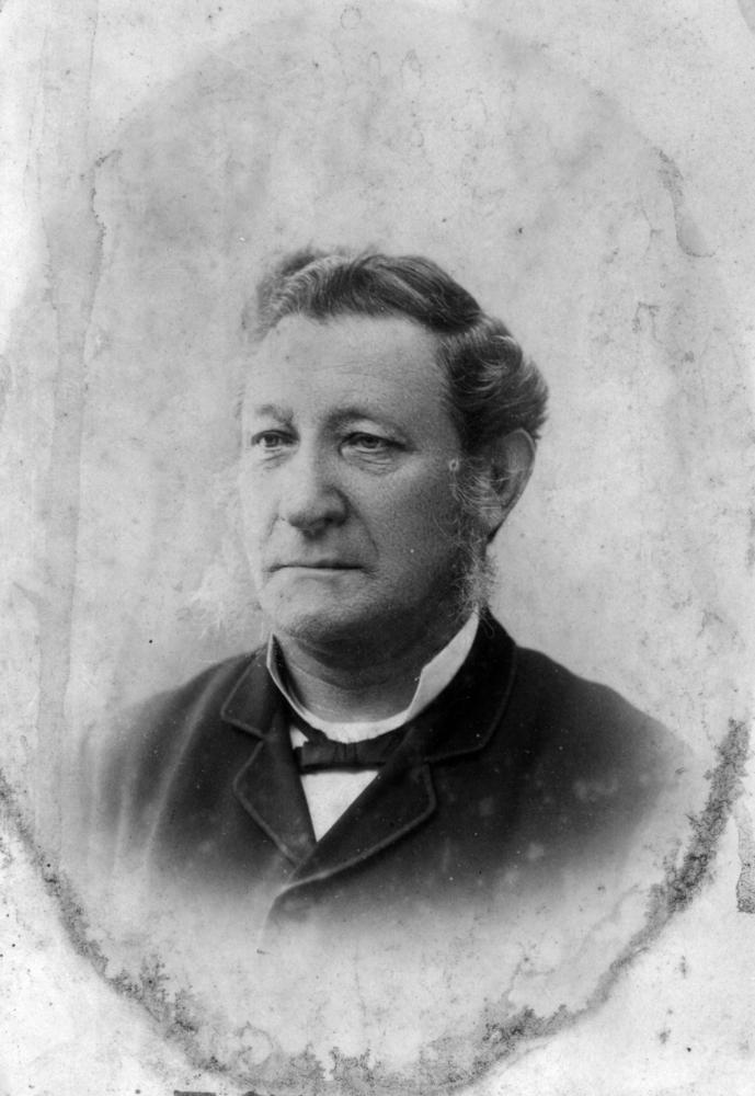 William Henry Groom, Queensland publican, newspaper proprietor and politician.